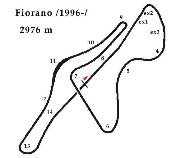 Fiorano Circuit is the private track owned by Ferrari (1996 - ) Without chicane